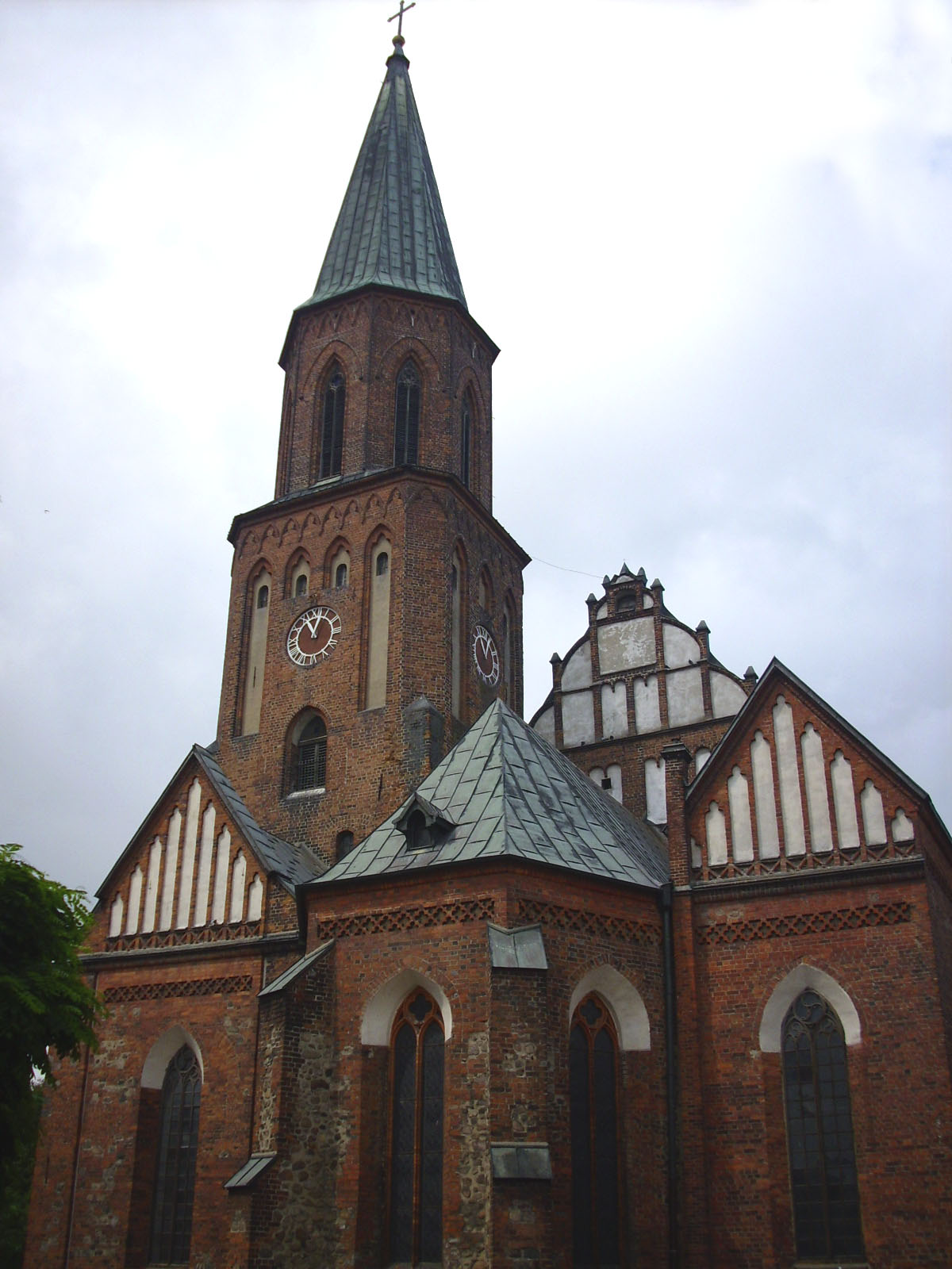 Podwyzszenia Krzyza Swietego Church in Sulechow